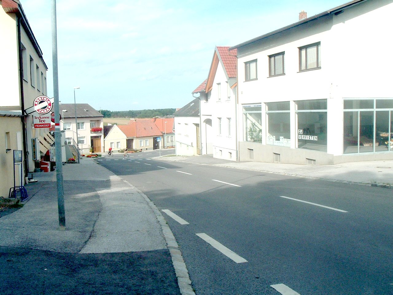 Drassmarkt (Vámosderecske)